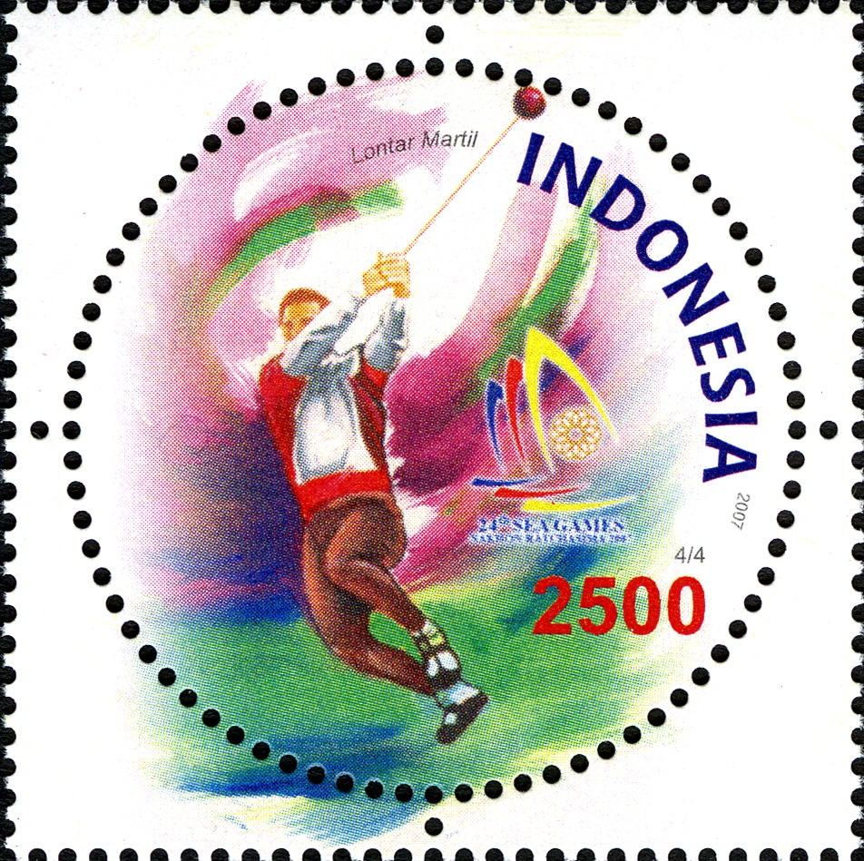 Stamps of Indonesia